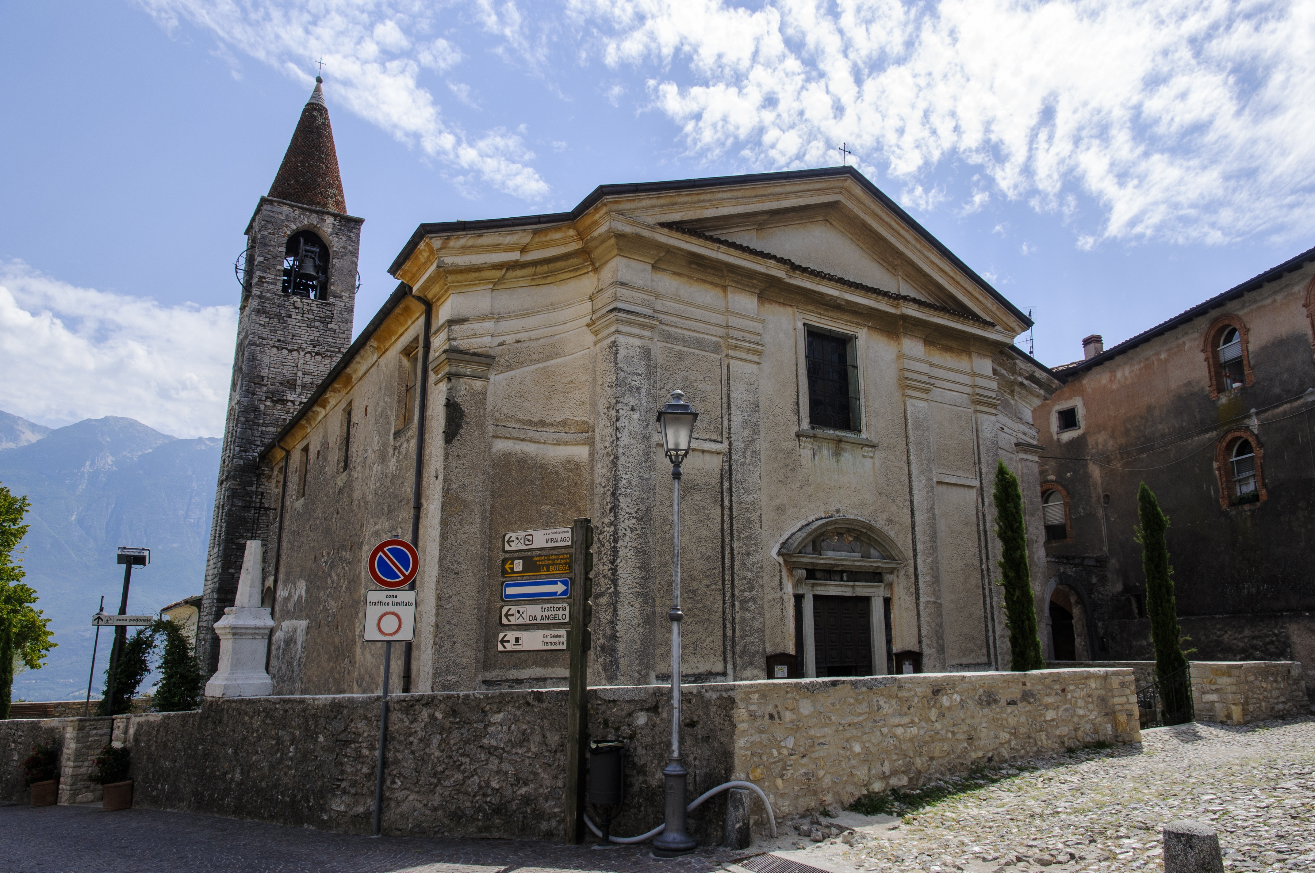 Church of St John the Baptist in Pieve di Tremosine (BS)